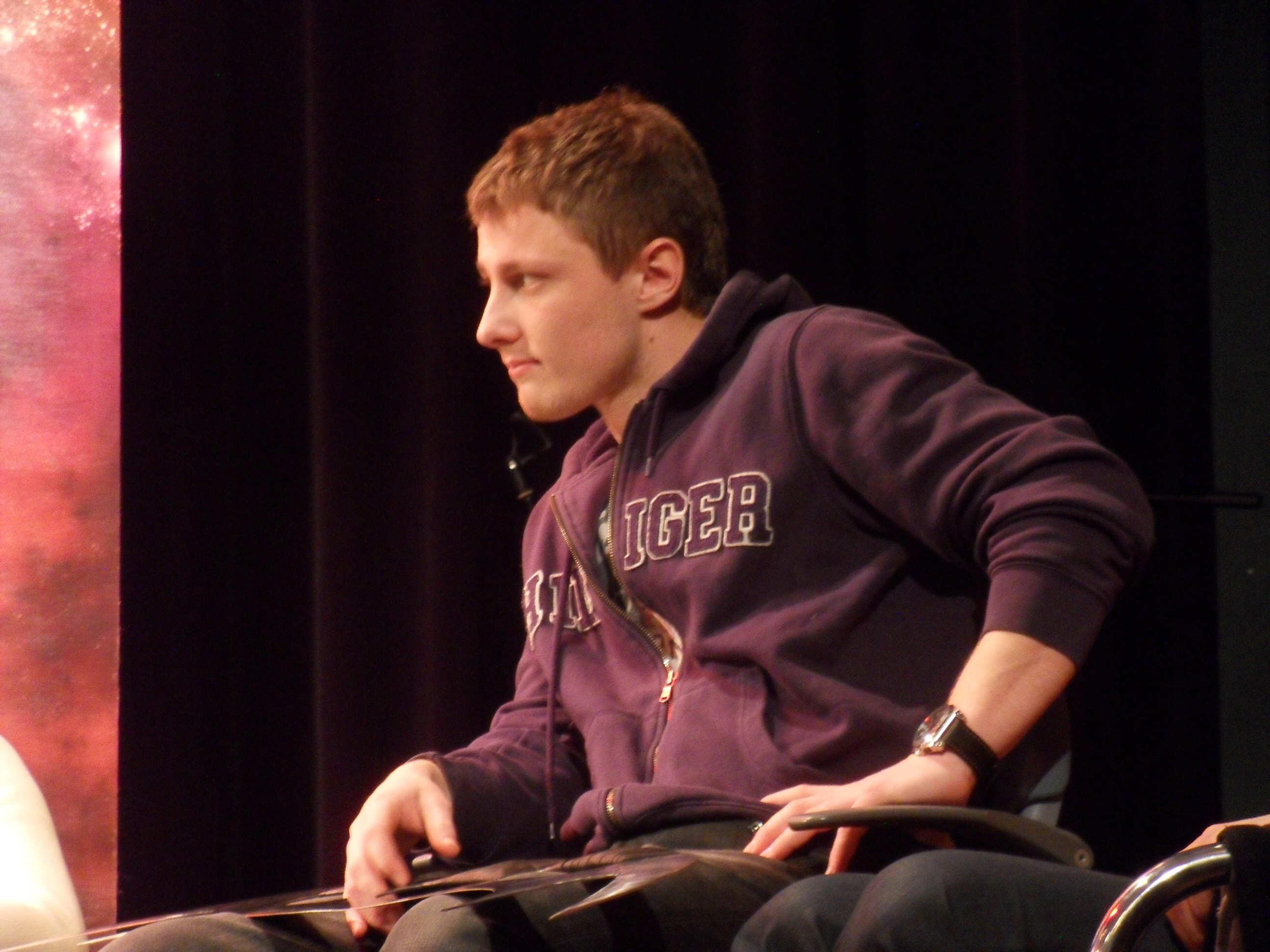 CzechTREK 2013, Kulturní centrum Novodvorská, Prague, Czech Republic Personality rights warningAlthough this work is freely licensed or in the public domain, the person(s) shown may have rights that legally restrict certain re-uses unless those depicted consent to such uses. In these cases, a model release or other evidence of consent could protect you from infringement claims.